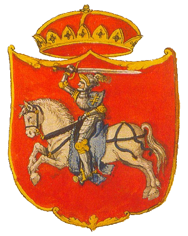 Lithuania's (GDL) coat of arms "Pohonia" from "Stemmata Polonica", XVI ct. One of the few CoA created in Lithuania with survived historical colors.